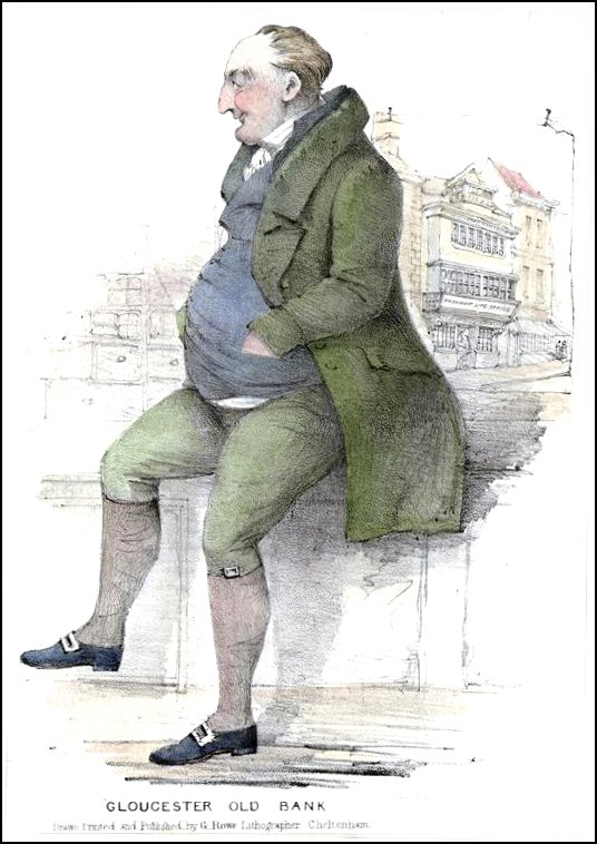 A print by George Row of Cheltenham depicting Jemmy Wood in front of the Gloucester Old Bank.